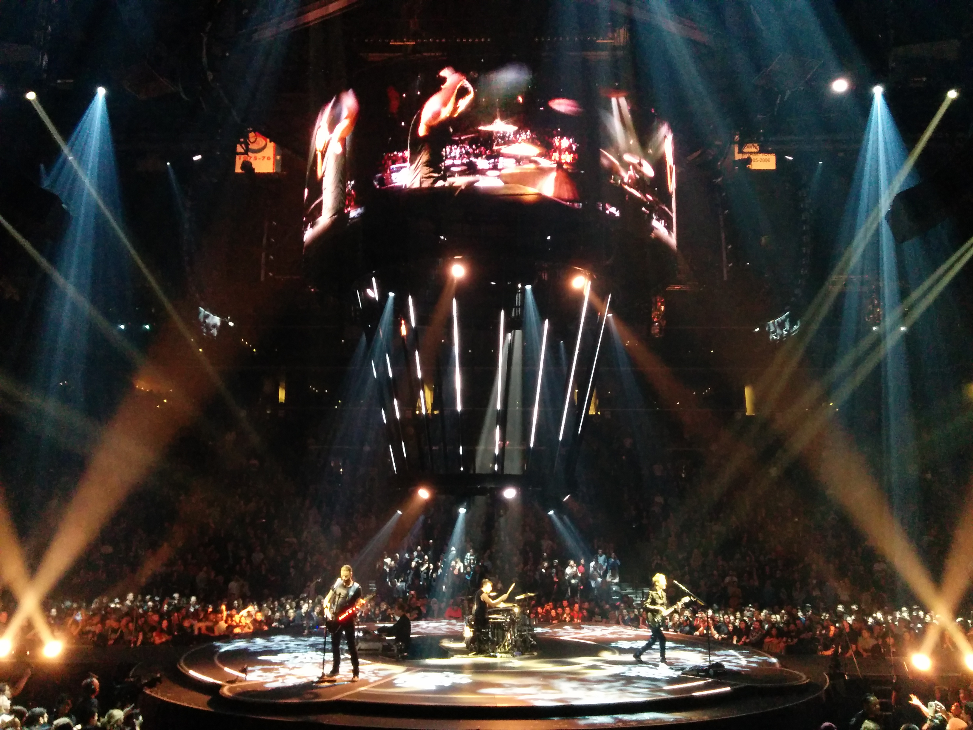 Muse concert in Brooklyn, NY